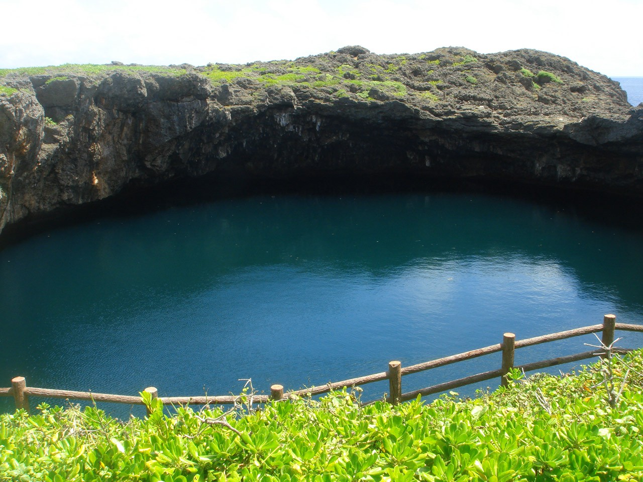 Toriike Pond, Shimoji Island, Okinawa Prefecture, Japan.